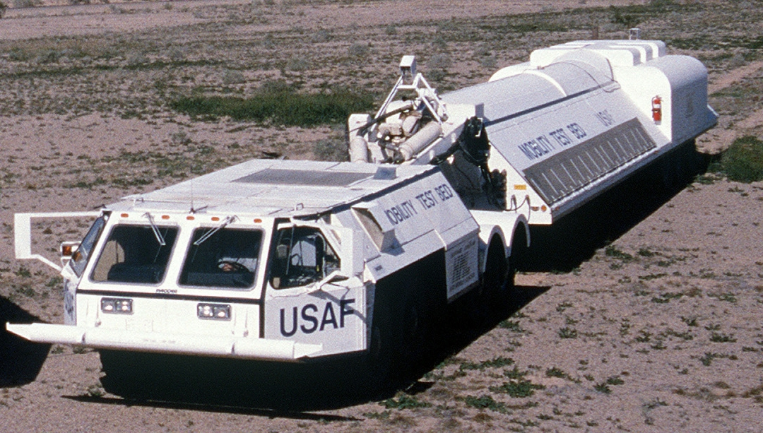 Boeing small intercontinental ballistic missile hard mobile launcher